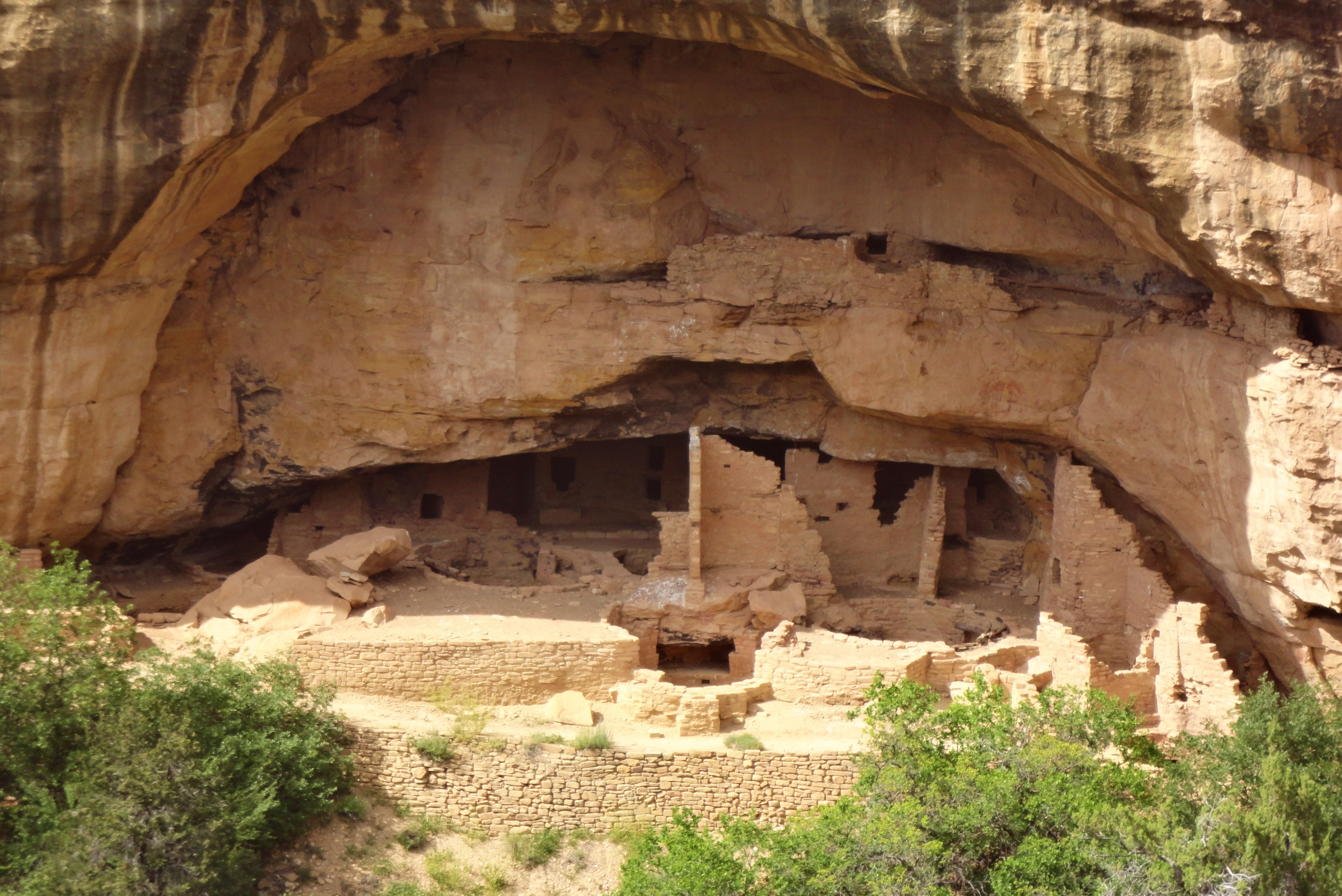 The Ancestral Puebloan cliff dwelling, Oak Tree House, in Mesa Verde National Park, Colorado.